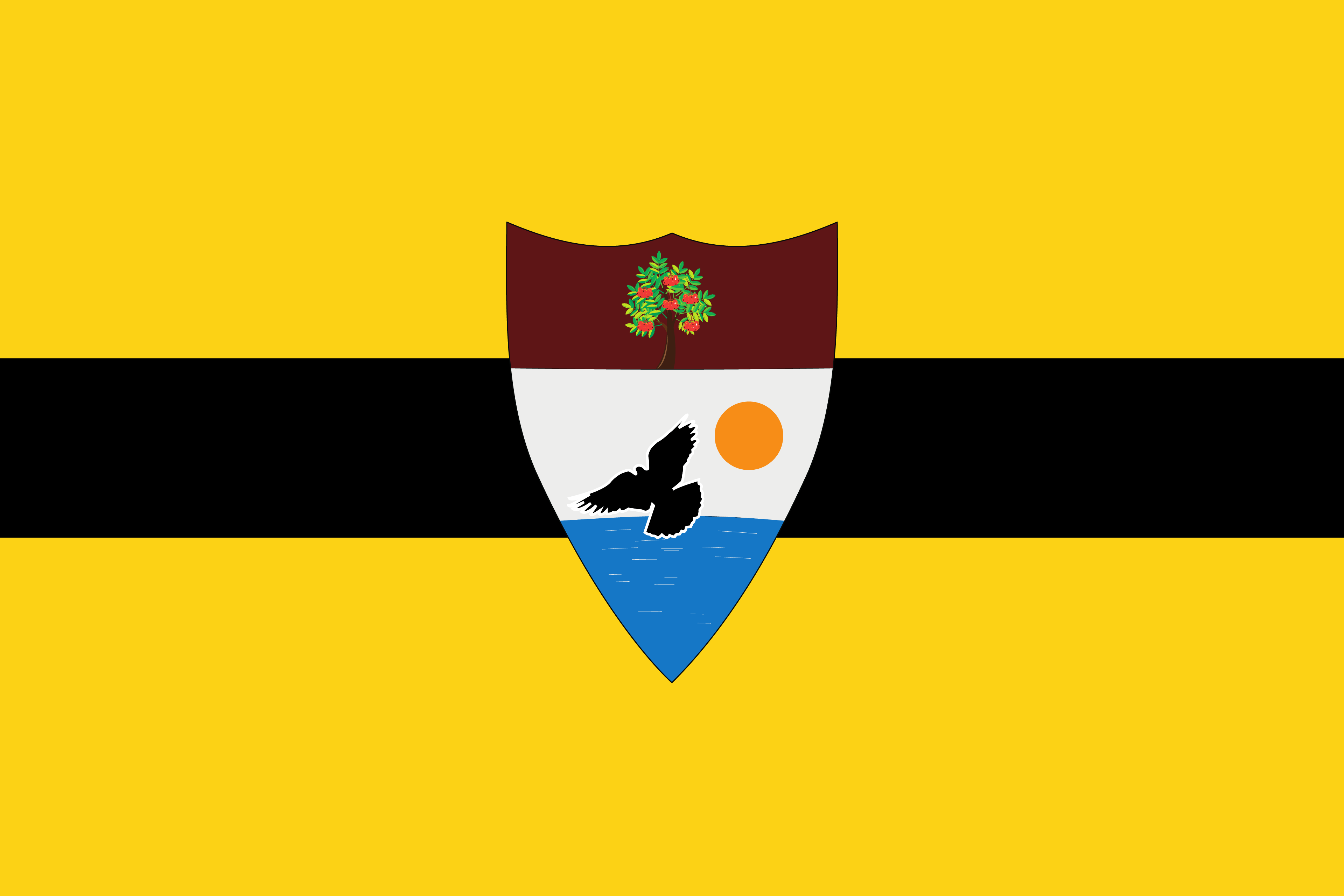 Flag of Liberland